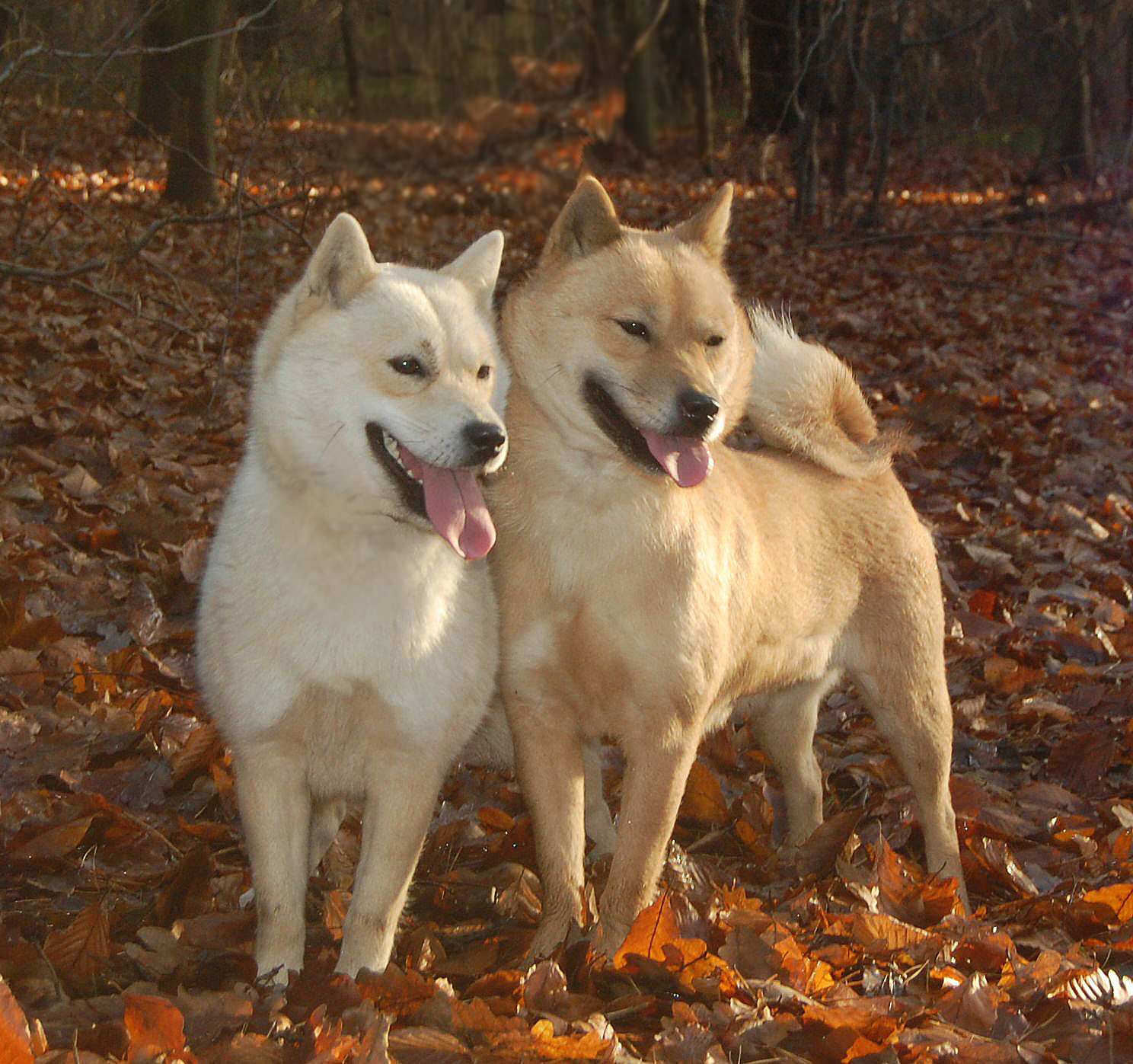 Hokkaido from the kennel HAKUGETSU, the owner - Katarzyna Jabłońska.